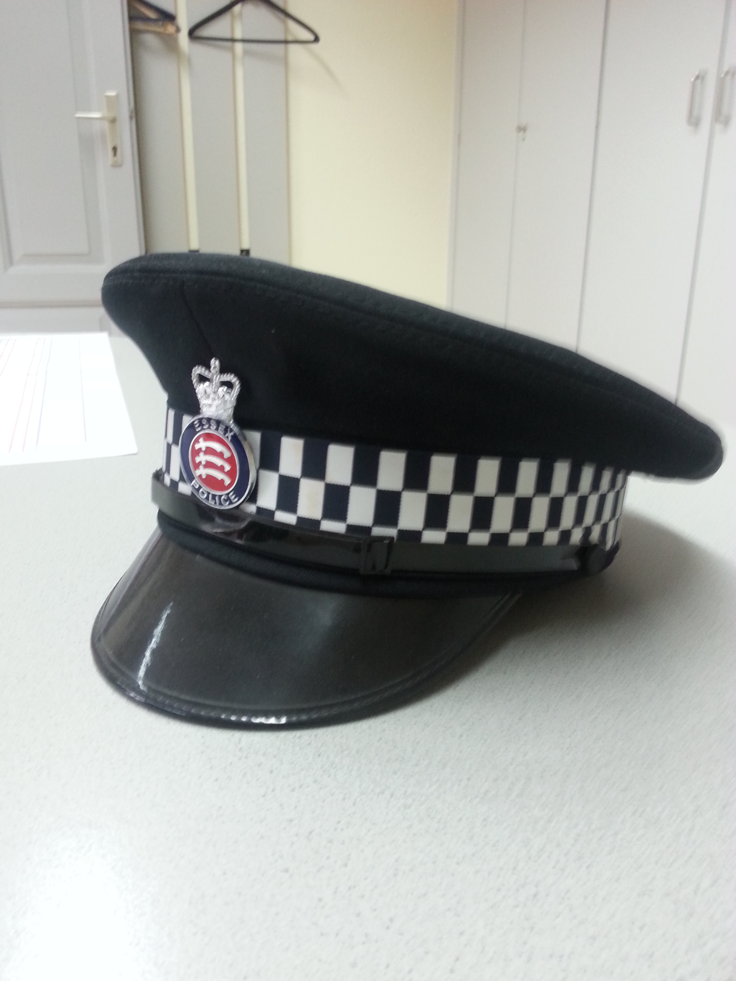 Essex Police Cap